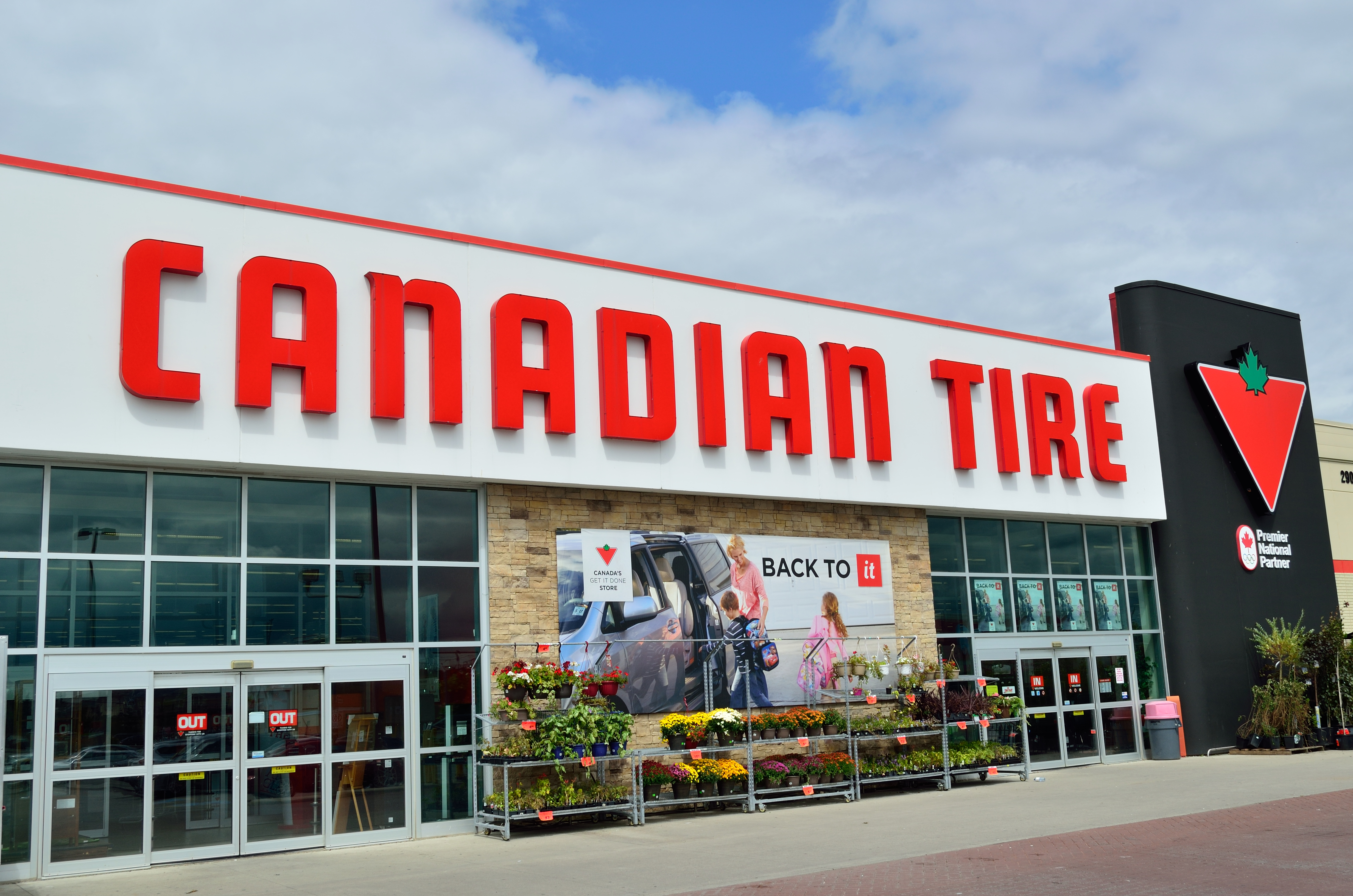 Canadian Tire - Address: 2900 Major Mackenzie Drive East, Markham, ON L6C 0G6, Canada